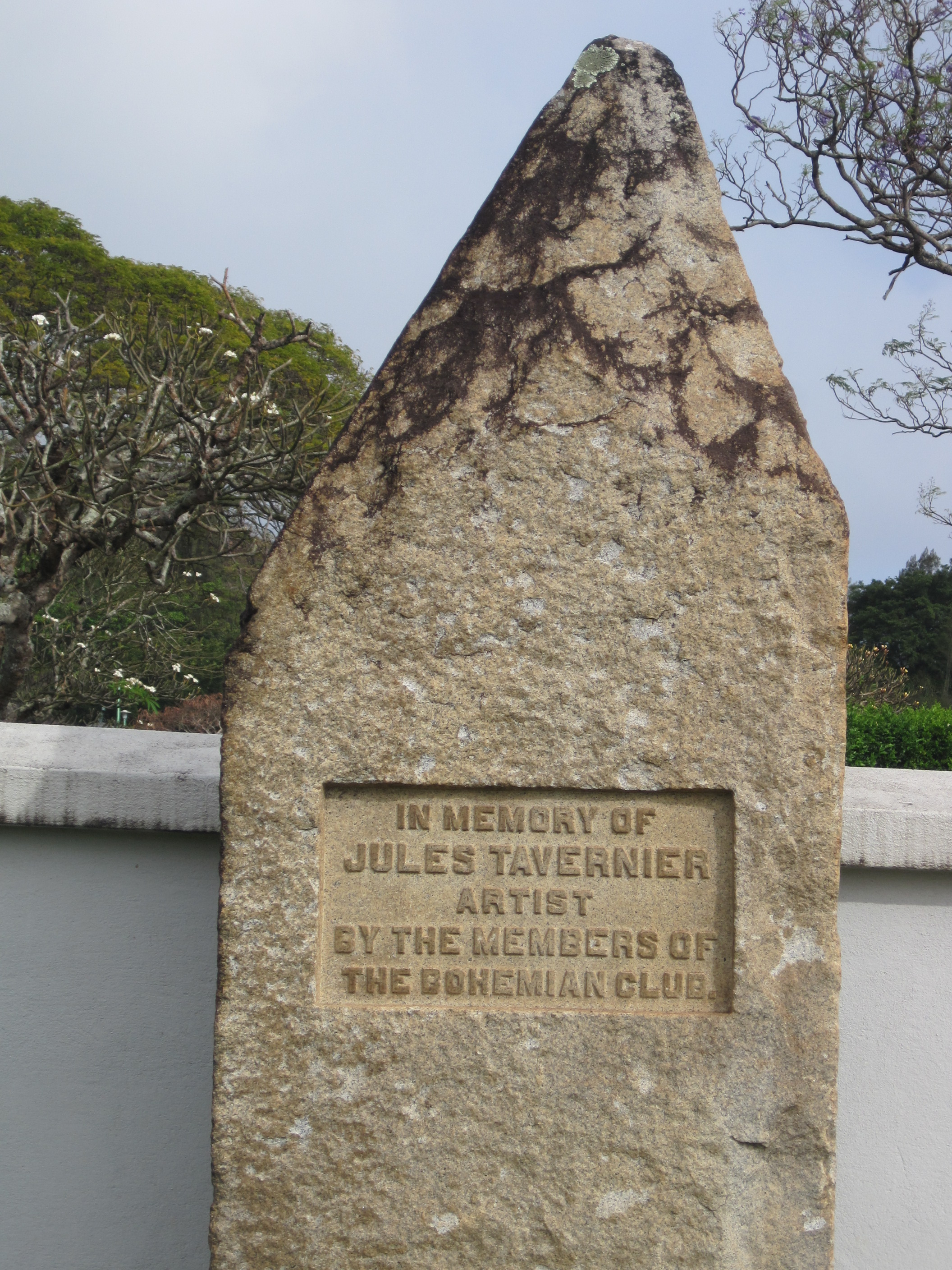 Monument to Jules Tavernier by the members of the Bohemian Club, Oahu Cemetery, Honolulu, Hawaii